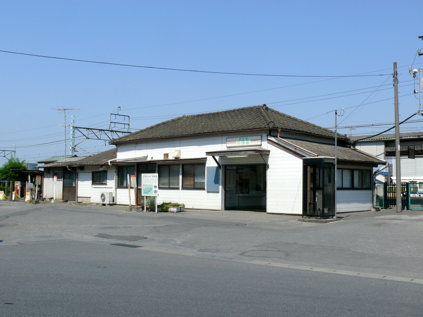 Kawamata Station on the Tobu Isesaki Line in Meiwa, Gunma